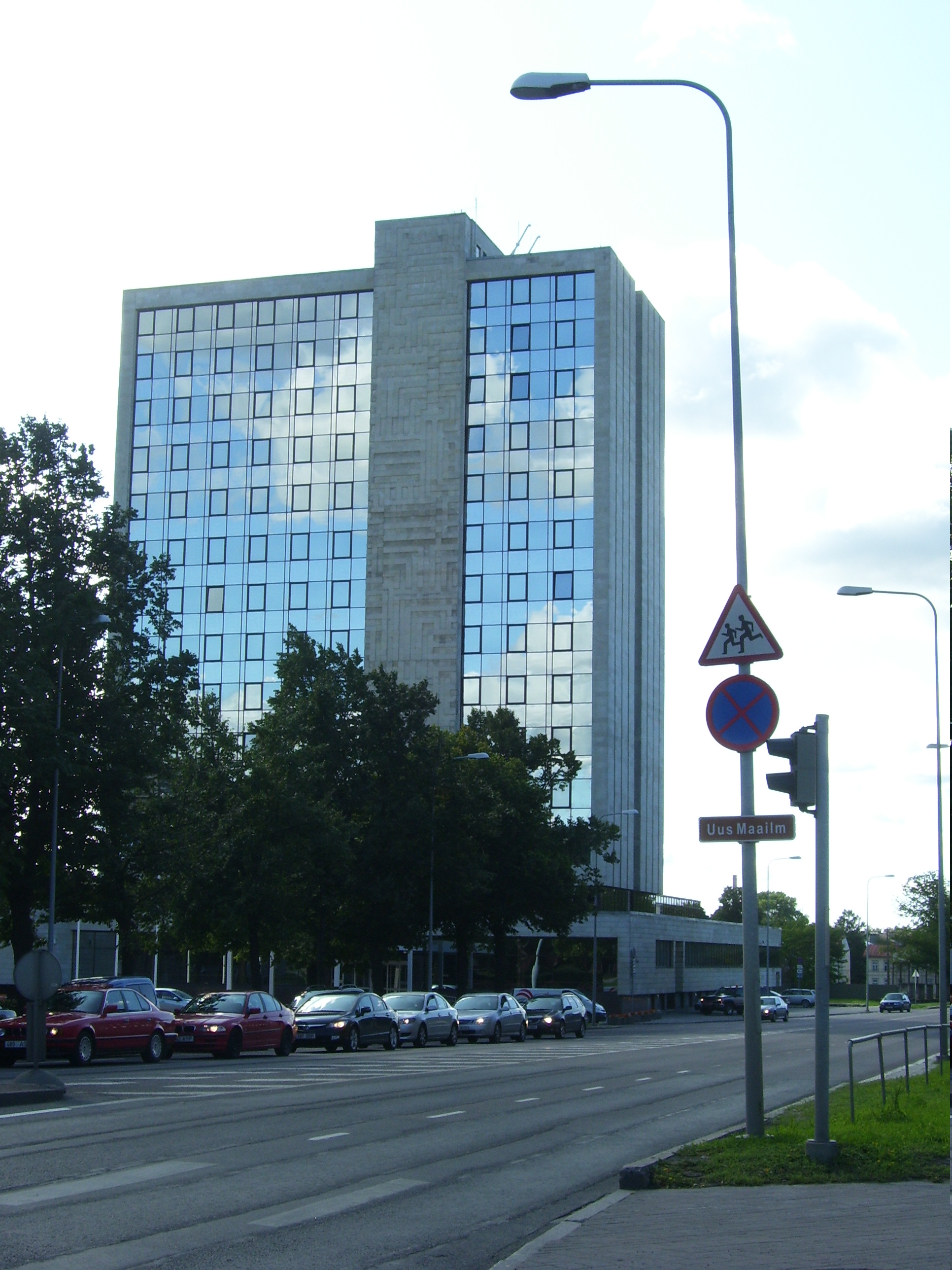 The quarter of Uus Maailm in Tallinn, Estonia. View from Pärnu road to Suur-Ameerika street.